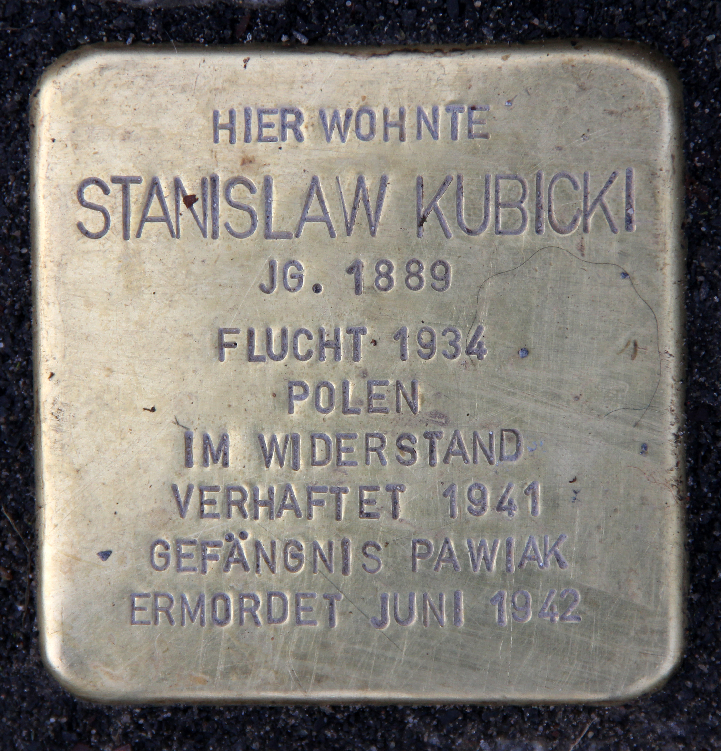 "Stolperstein" (stumbling block), Stanislaw Kubicki, Onkel-Bräsig-Straße 46, Berlin-Britz, Germany gestohlen vom 5. zum 6. November 2017